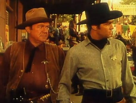 Hugh Sanders (left) & Dale Robertson in City of Bad Men - trailer (cropped screenshot)